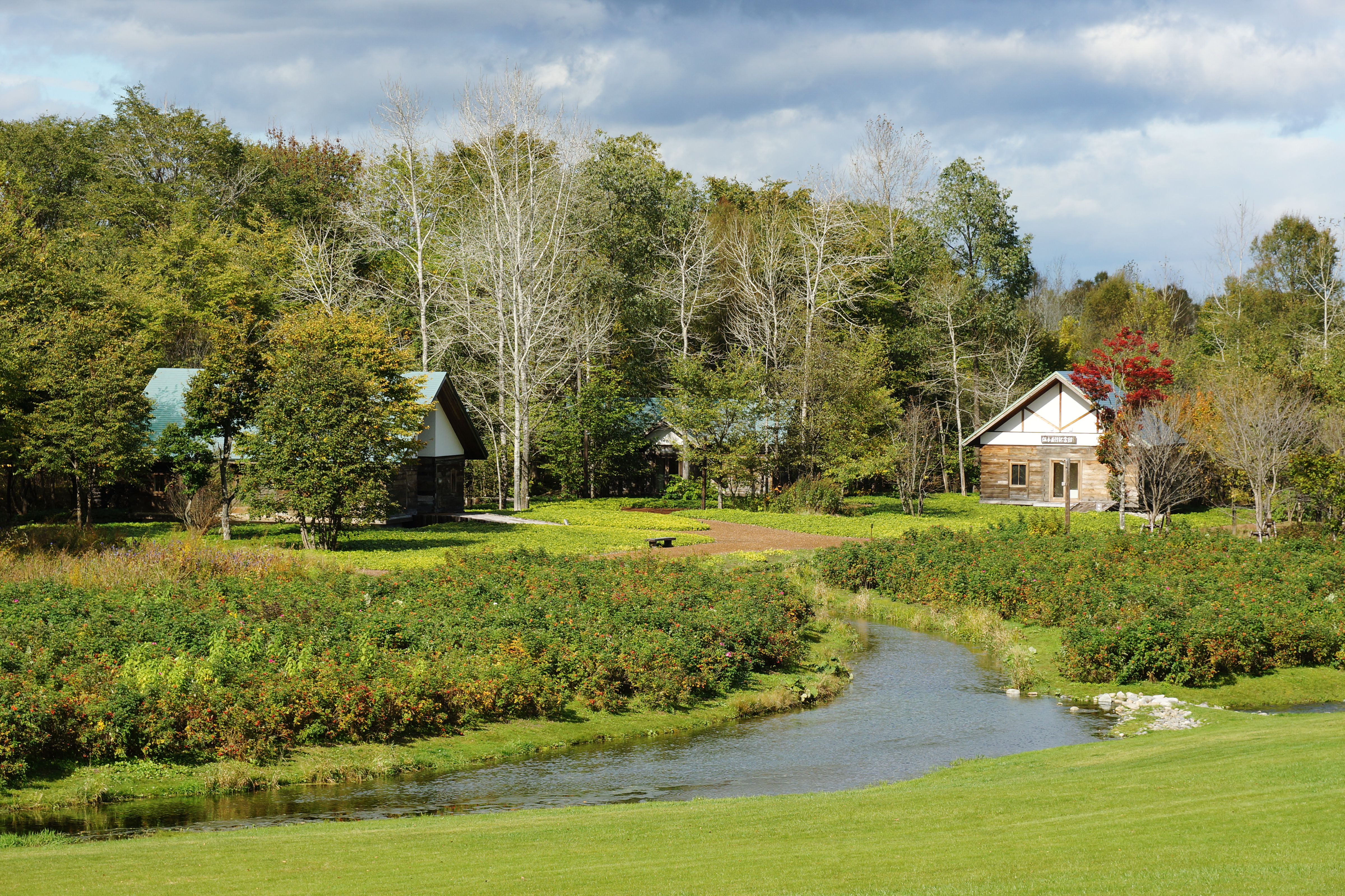 Rokka no Mori in Nakasatsunai, Hokkaido prefecture, Japan.